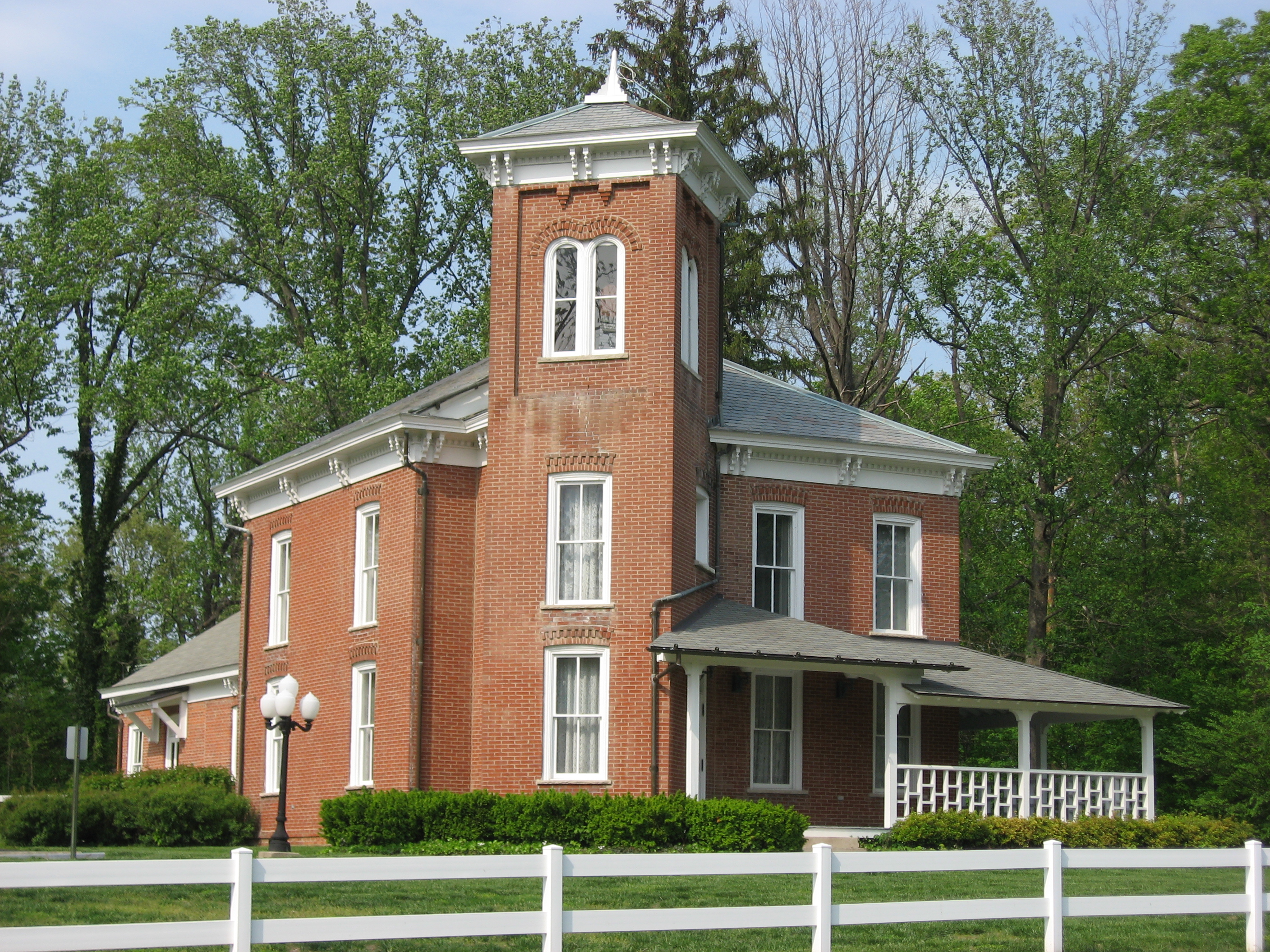 Front of the William M. Cockrum House, located at 627 W. Oak Street in Oakland City, Indiana, United States. Built in 1876 and now owned by Oakland City University, it is listed on the National Register of Historic Places.